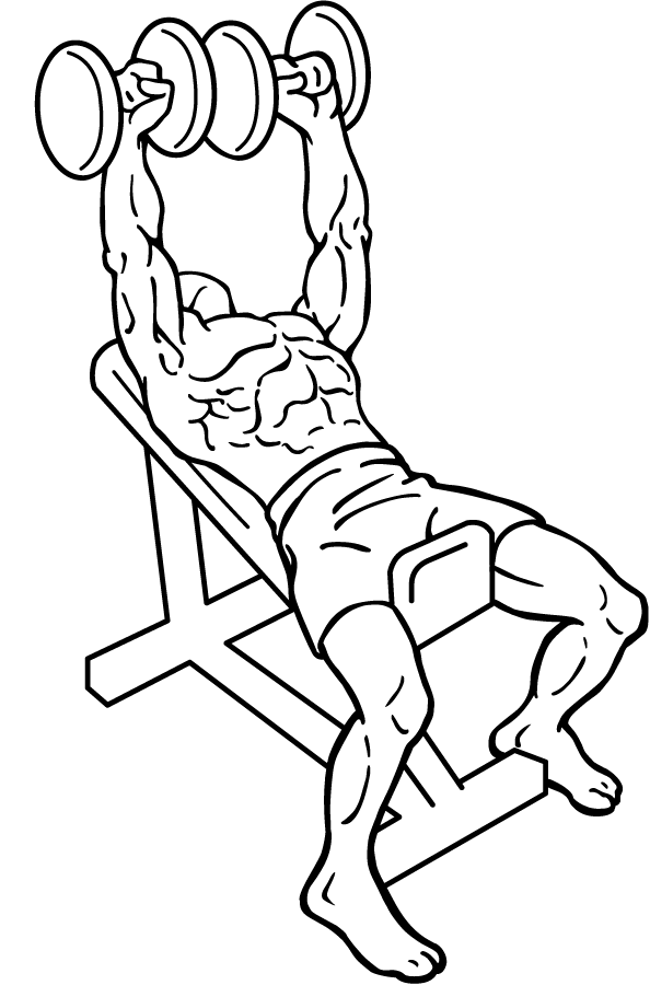 an exercise of chest